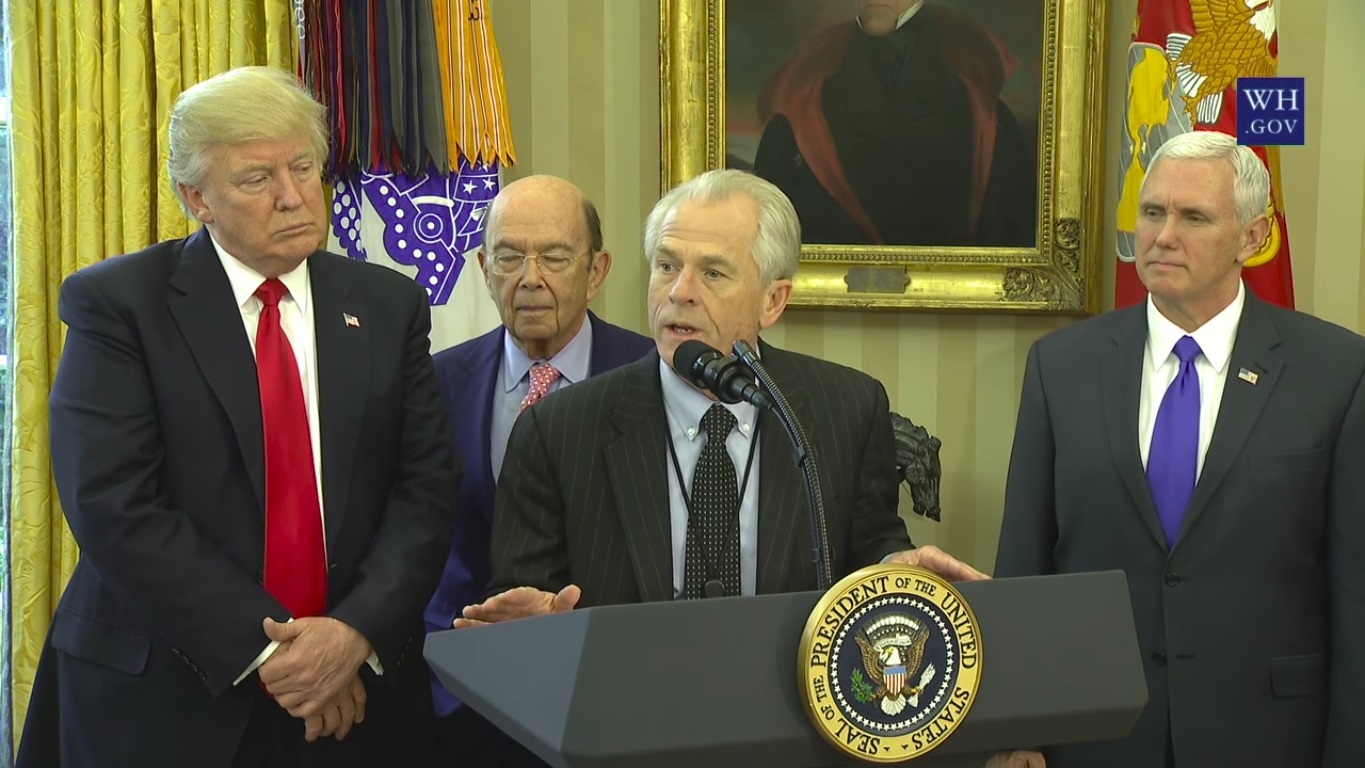 Remarks by President Trump et al. at Signing of Trade Executive Orders THE PRESIDENT: Thank you. Peter. MR. NAVARRO: I remember well during the campaign, the day the President made the the speech (Declaring American Economic Independence on 6/28/2016) outside of Pittsburgh and laid down a set of promises to the American people on trade. And today, this is the beginning of the fulfillment of those promises in a grand way, with Wilbur Ross at the helm, and the President being the grand strategist of this. And we're going to get it done for the American people, workers, and domestic manufacturers. Thank you.